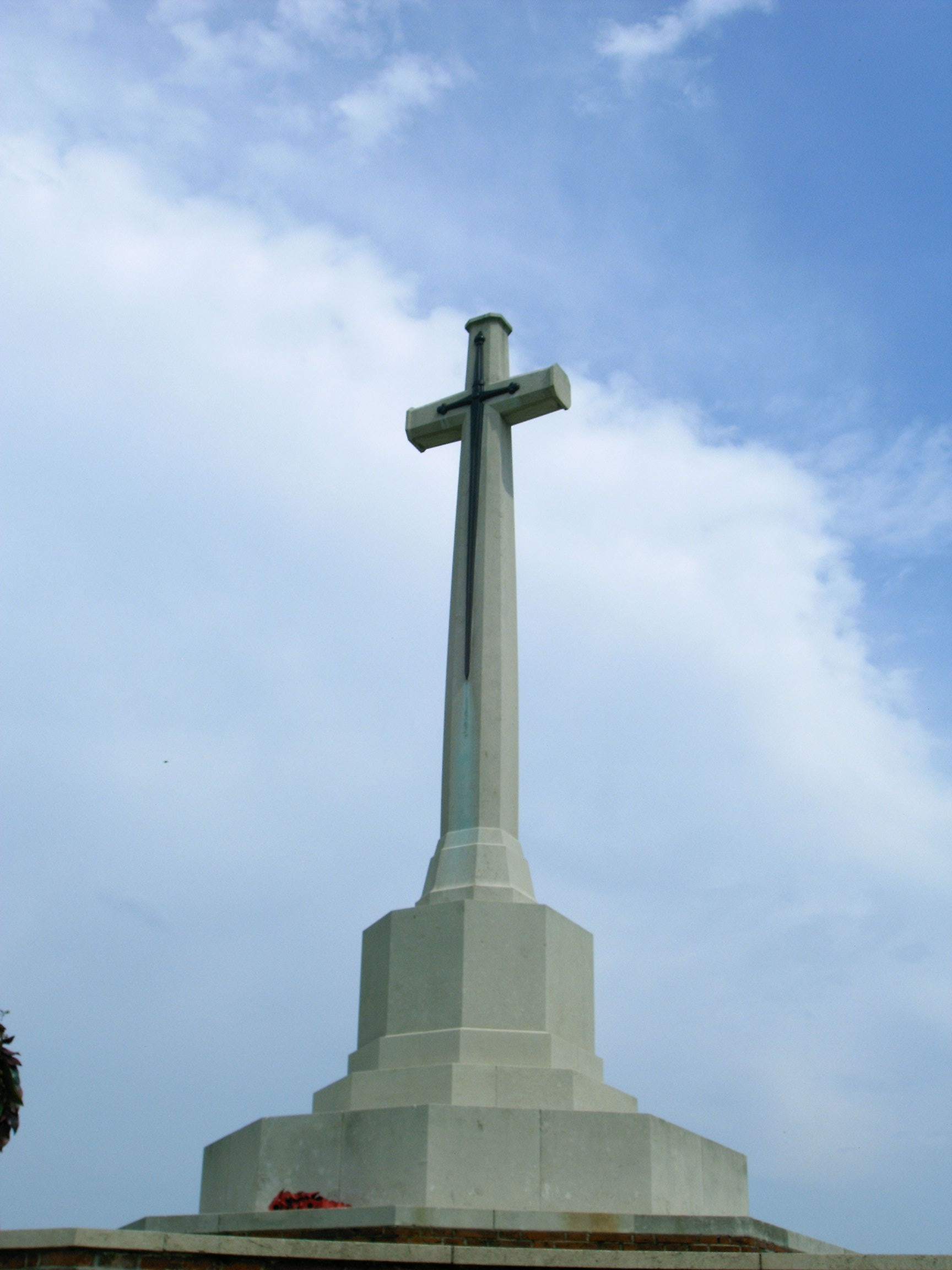 Ereveld Groesbeek Cross of Sacrifice